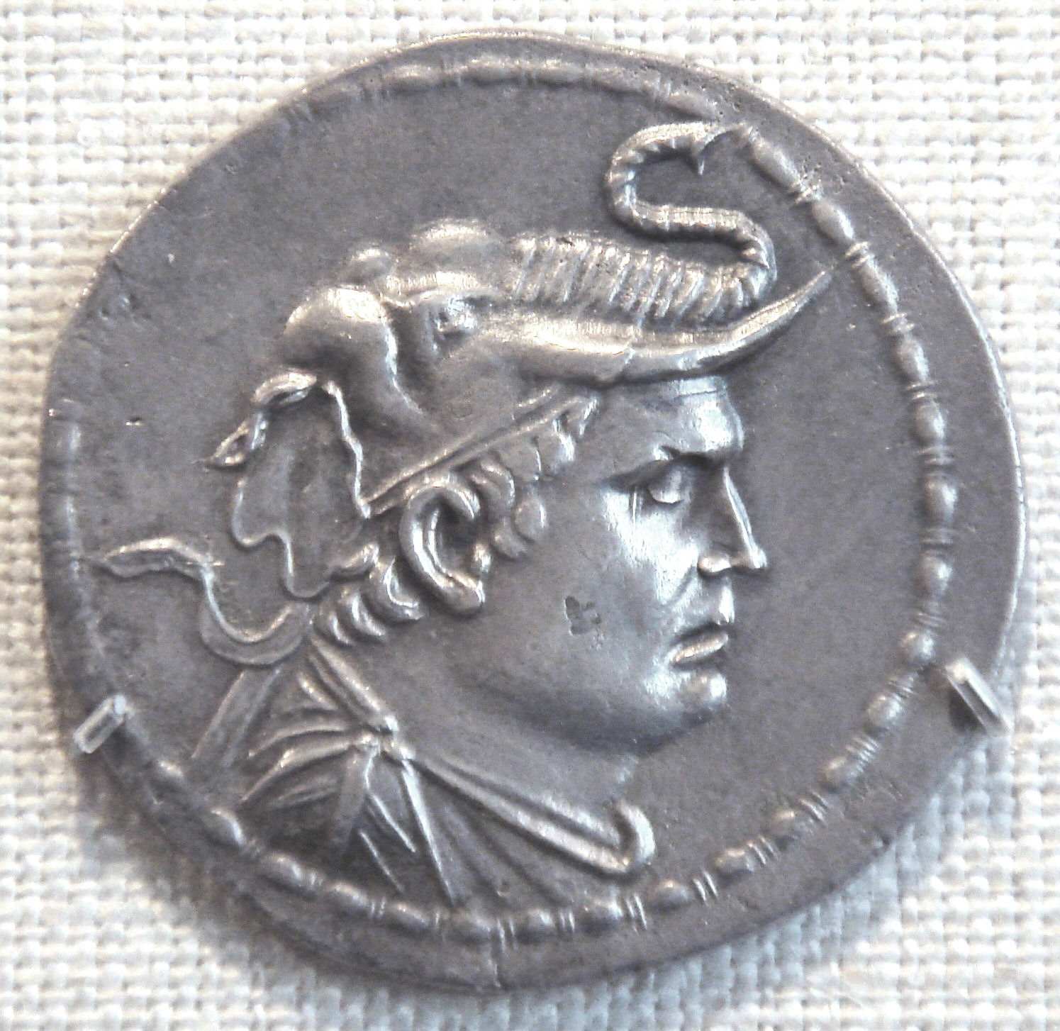 Demetrius_I_MET_coin